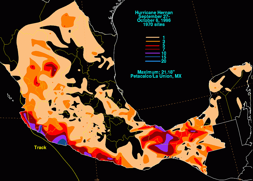 Rainfall produced by Hurricane Hernan during September and October 1996.